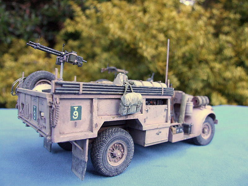 Tamiya 1:35 scale 30 cwt LRDG Chevrolet